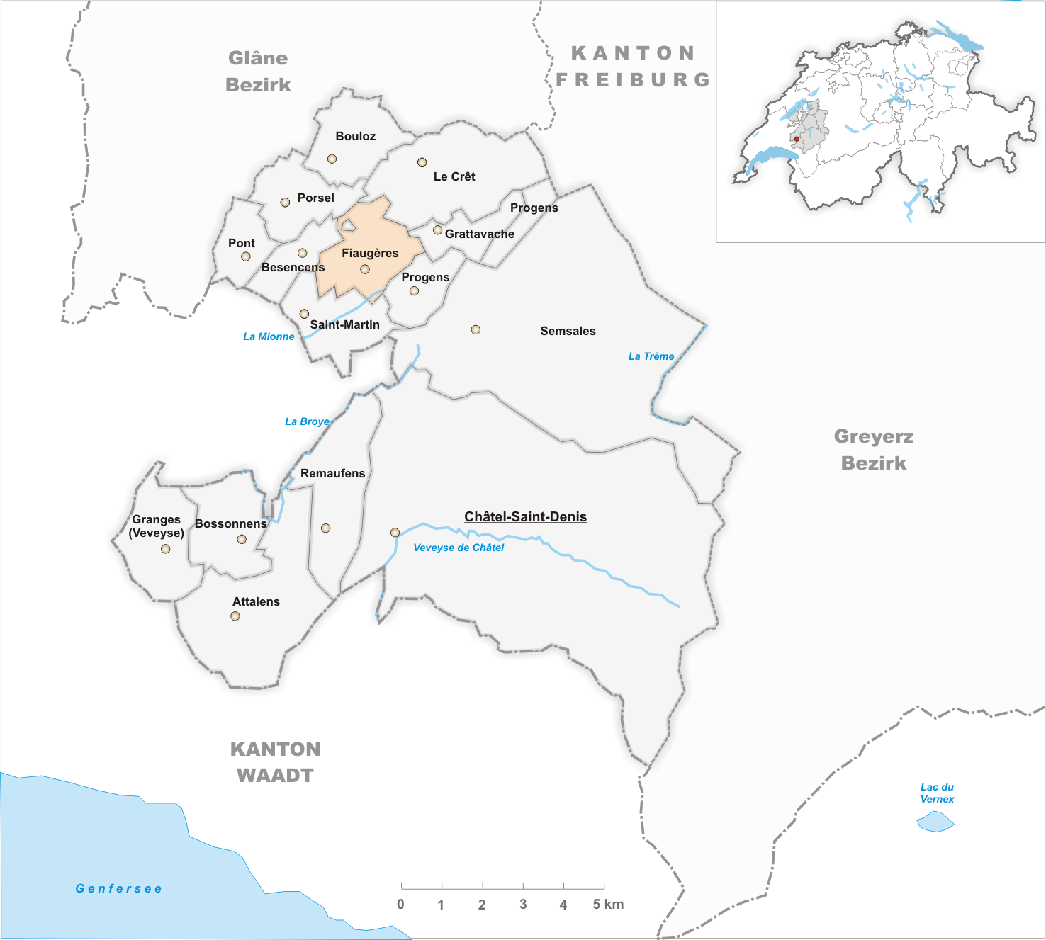 Municipality Fiaugères Artist: Tschubby